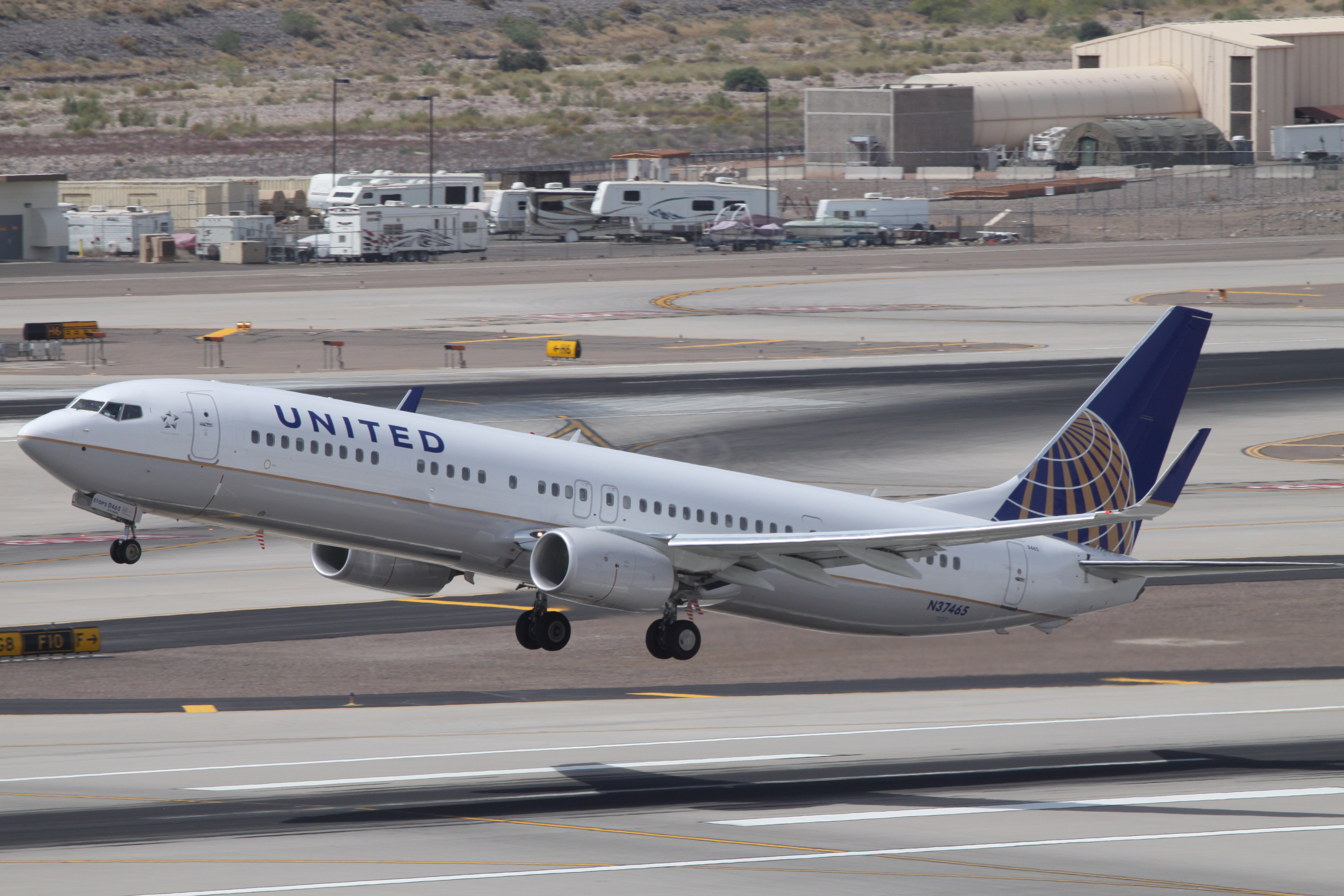 At Phoenix Sky Harbor International